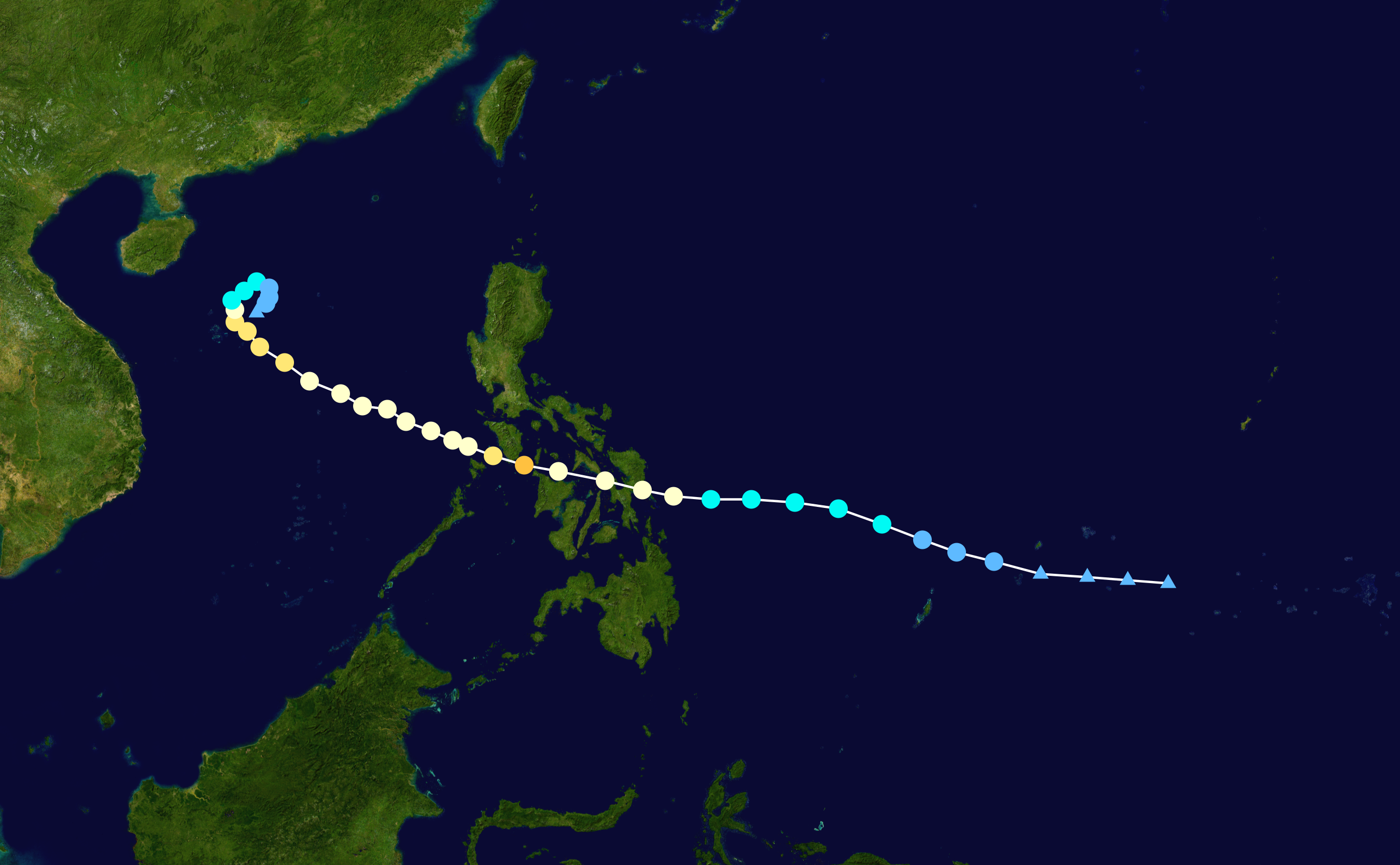 Typhoon Utor (2006) track. Uses the color scheme from the Saffir-Simpson Hurricane Scale.